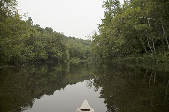 Seguin River. Photo by Tyler Gray in the summer of 2006.